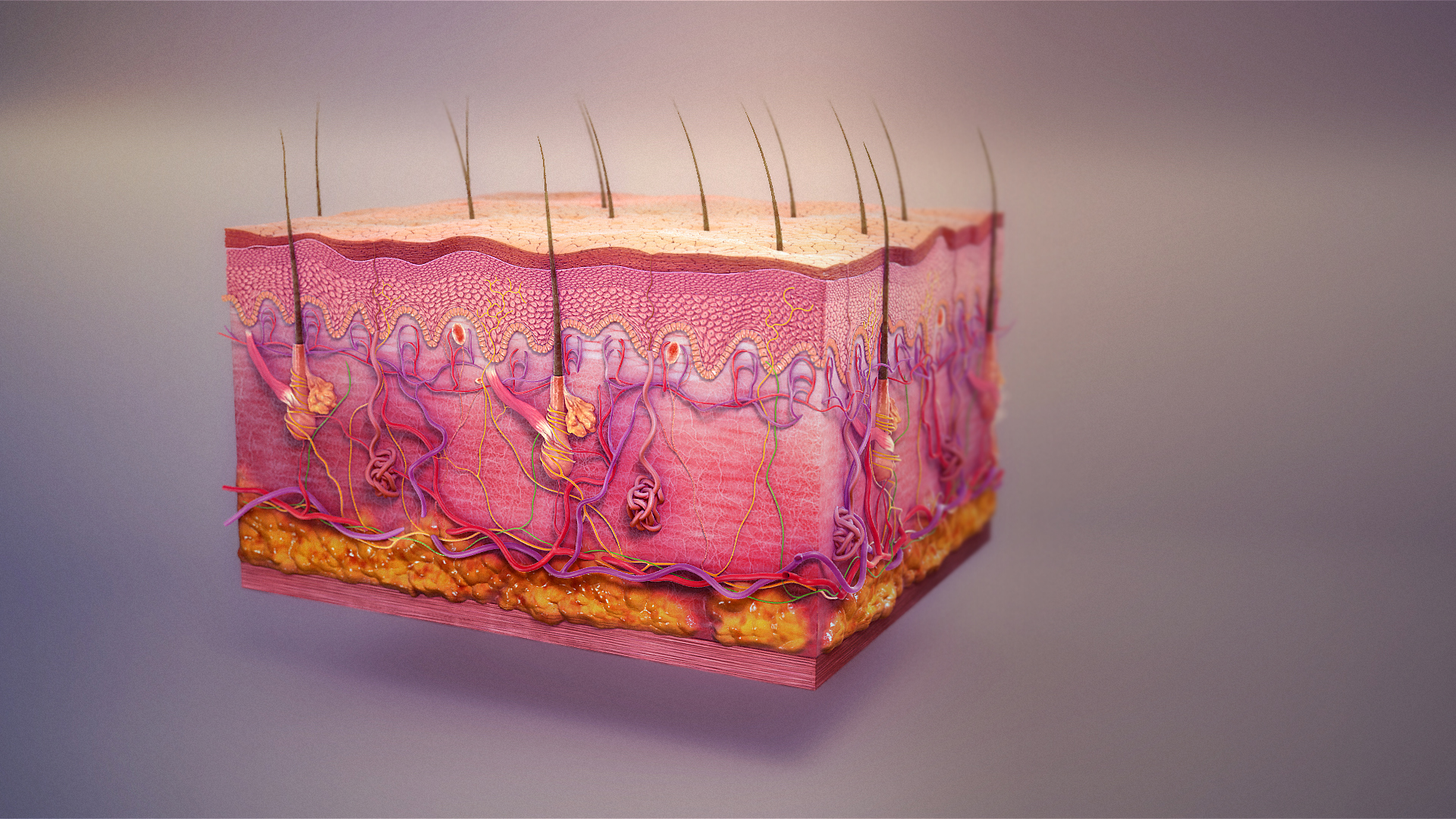 3D medical animation still showing human skin (integument) cross section.